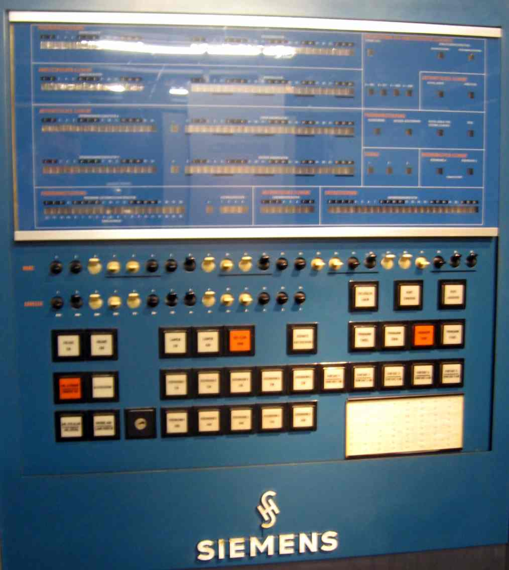 Computer equipment